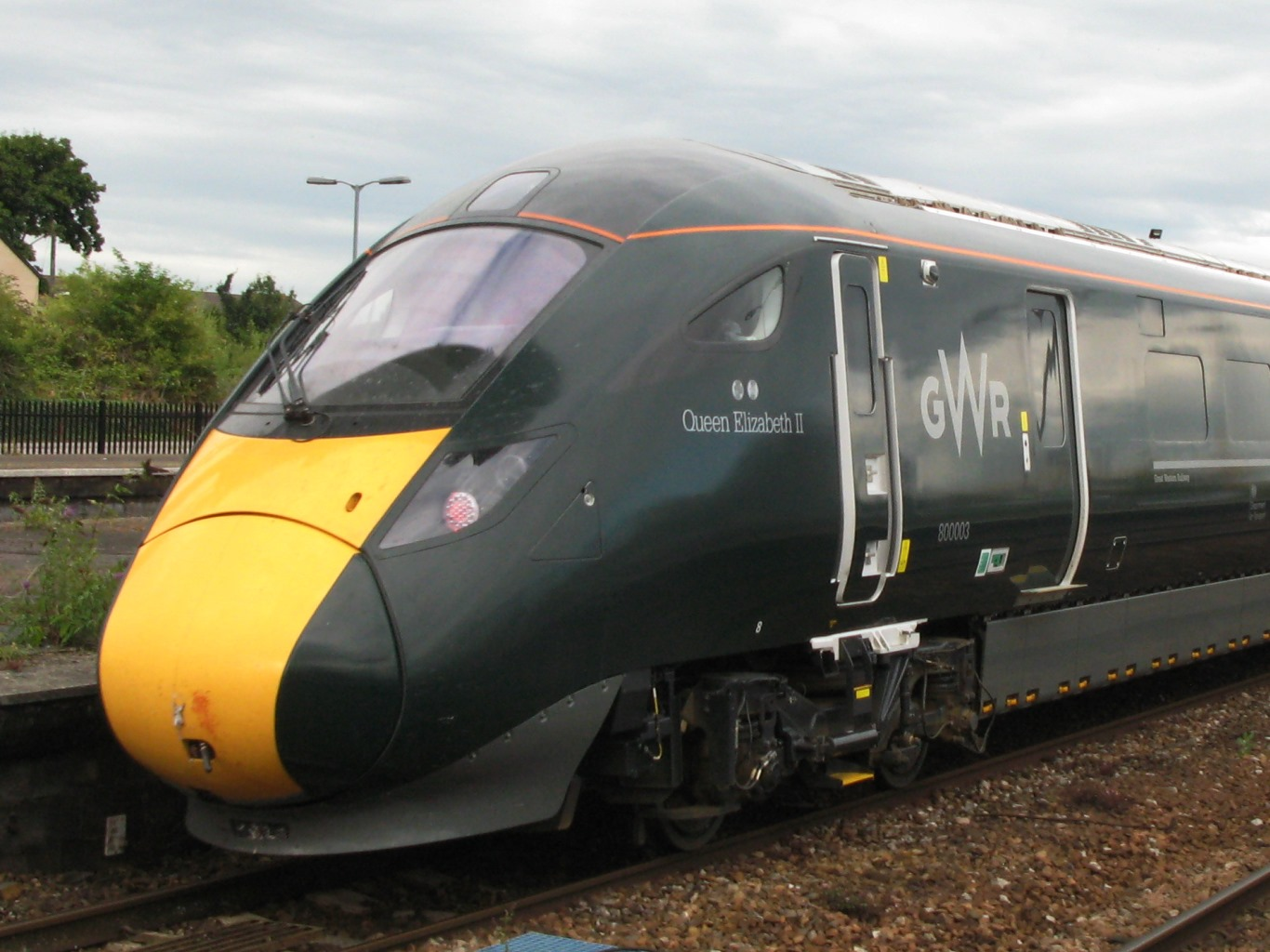 Great Western Railway have named car 811504 of new InterCity Electric Train 800003 Queen Elizabeth II.